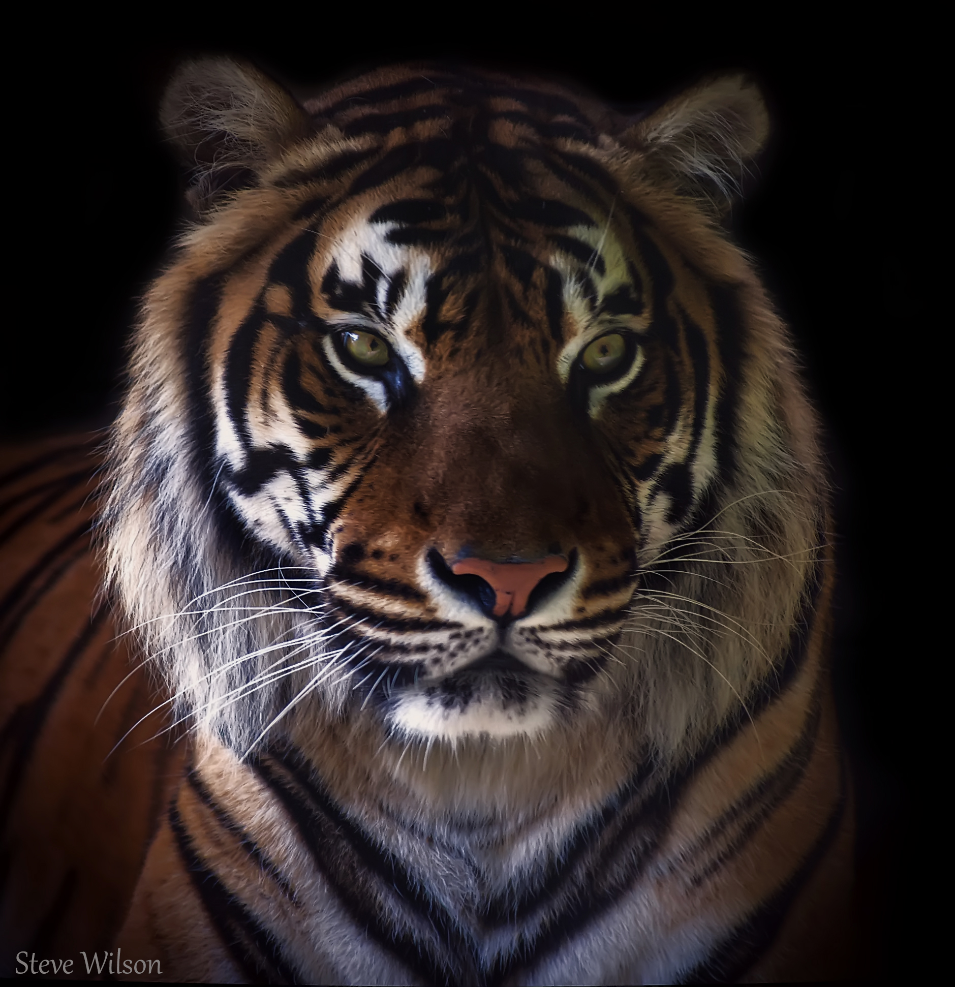 Photographed at The Welsh Mountain Zoo in Colwyn Bay, North Wales